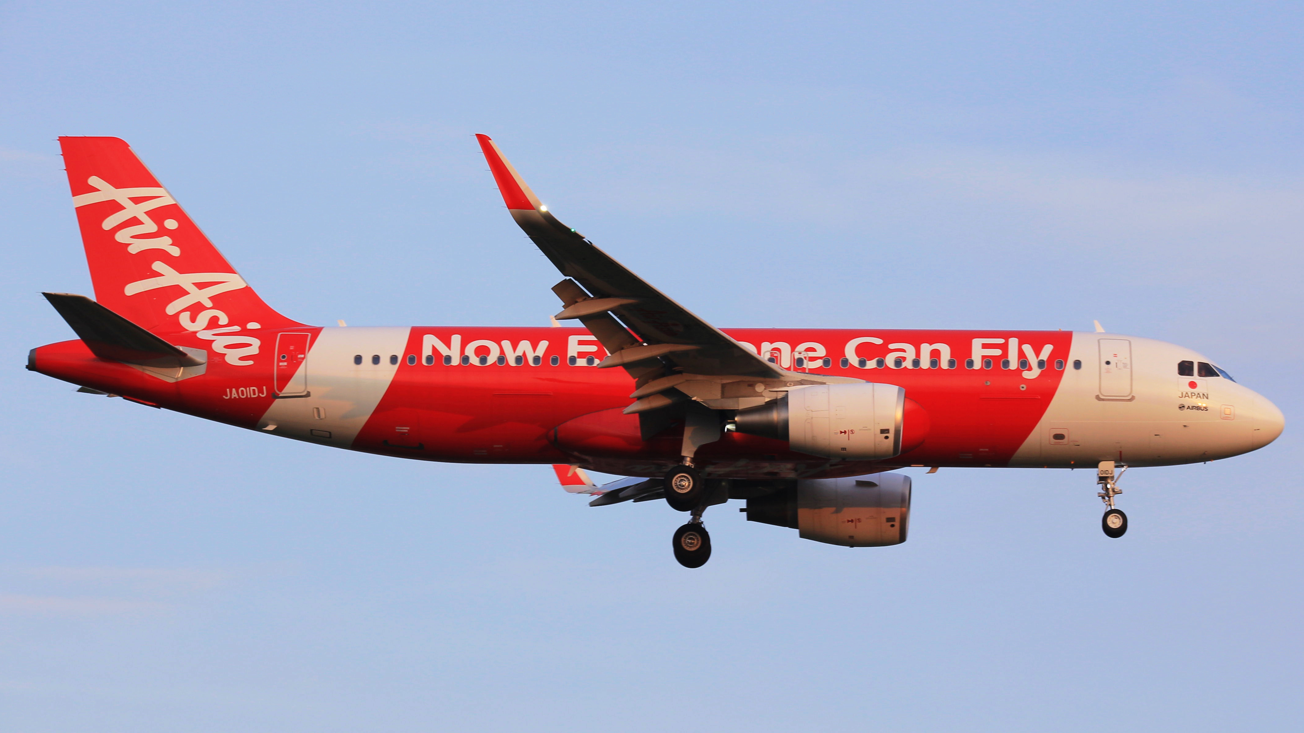 Taiwan Taoyuan International Airport